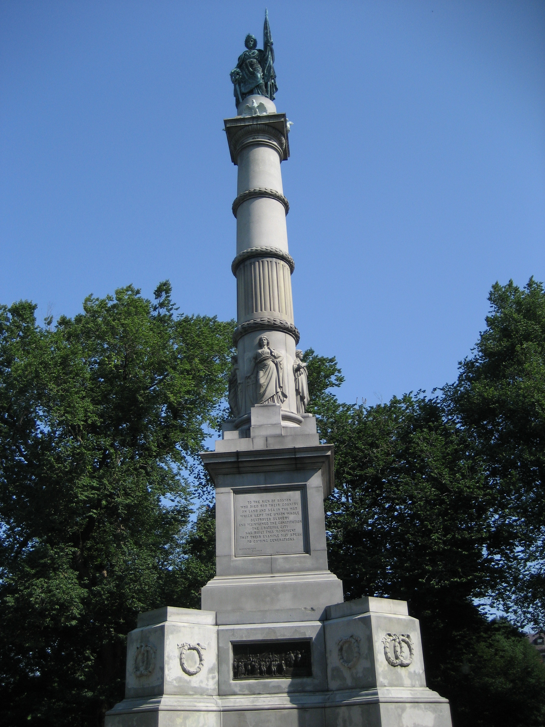 American Civil War memorial pilar, Boston Commons, Boston, Massachusetts.